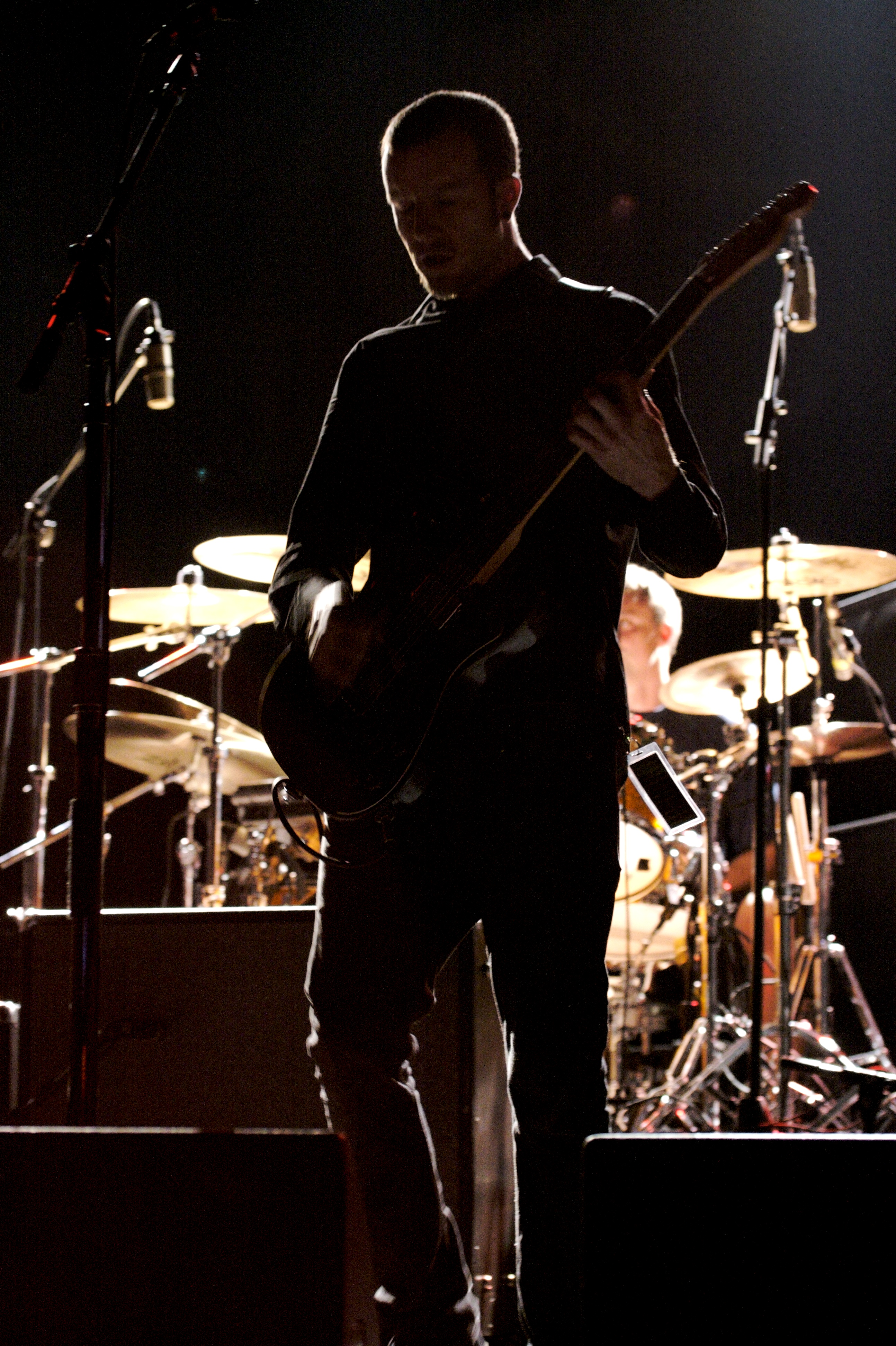 Aaron Turner of Isis, performing live.